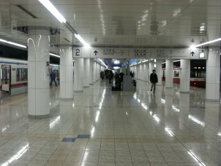 Keikyu Haneda Airport Station